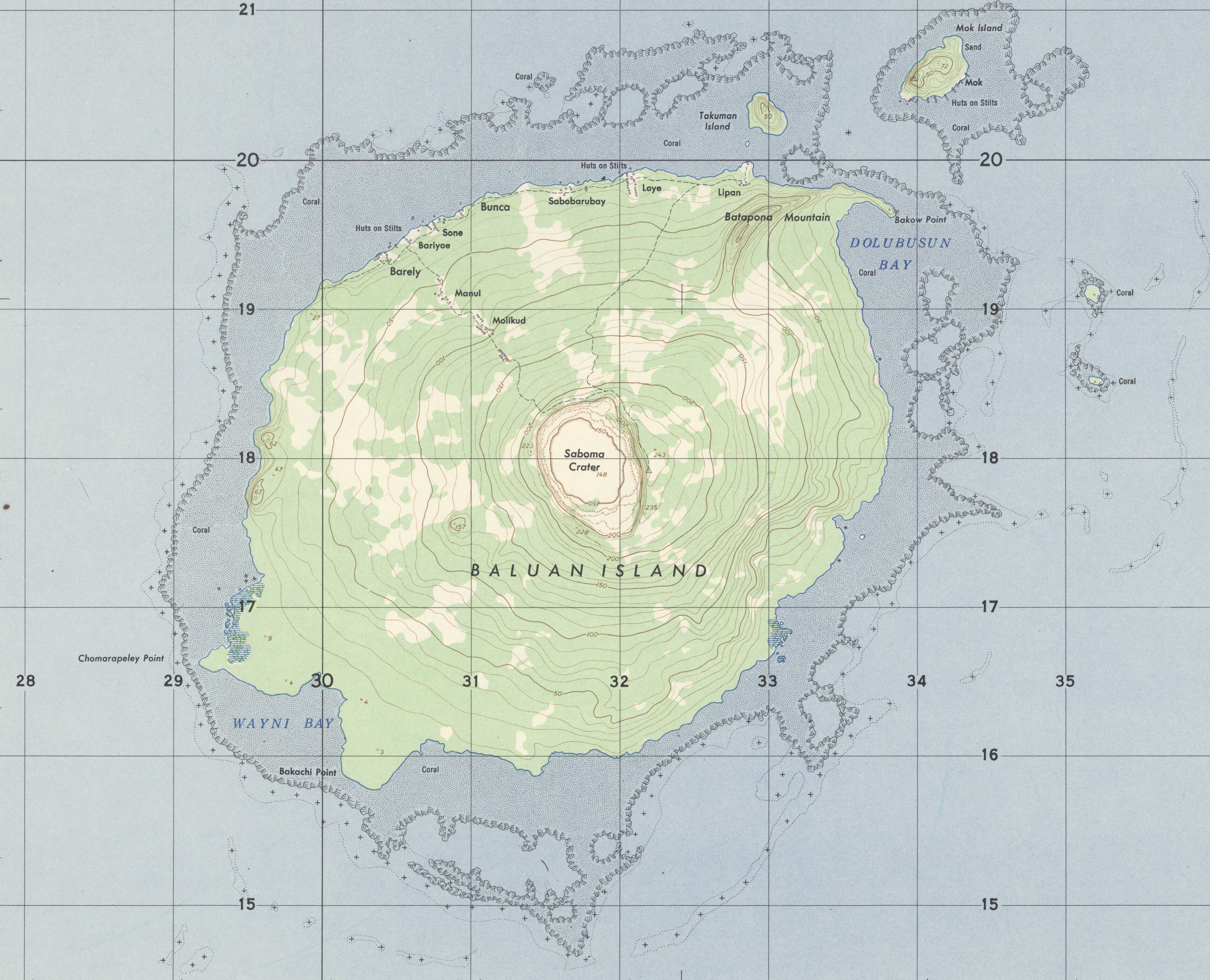 Cropped map showing Baluan and Mok Island with topographical features.